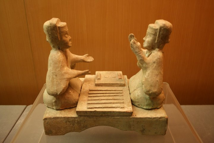 Chinese Han Dynasty (202 BC – 220 AD) pottery figurines of scholarly gentrymen playing and arguing over a divinational board game of liubo. According to a University of Washington site, these types of figures were often placed in Han tombs so that the spirit of the deceased would utilize them as a means of entertainment in the afterlife.